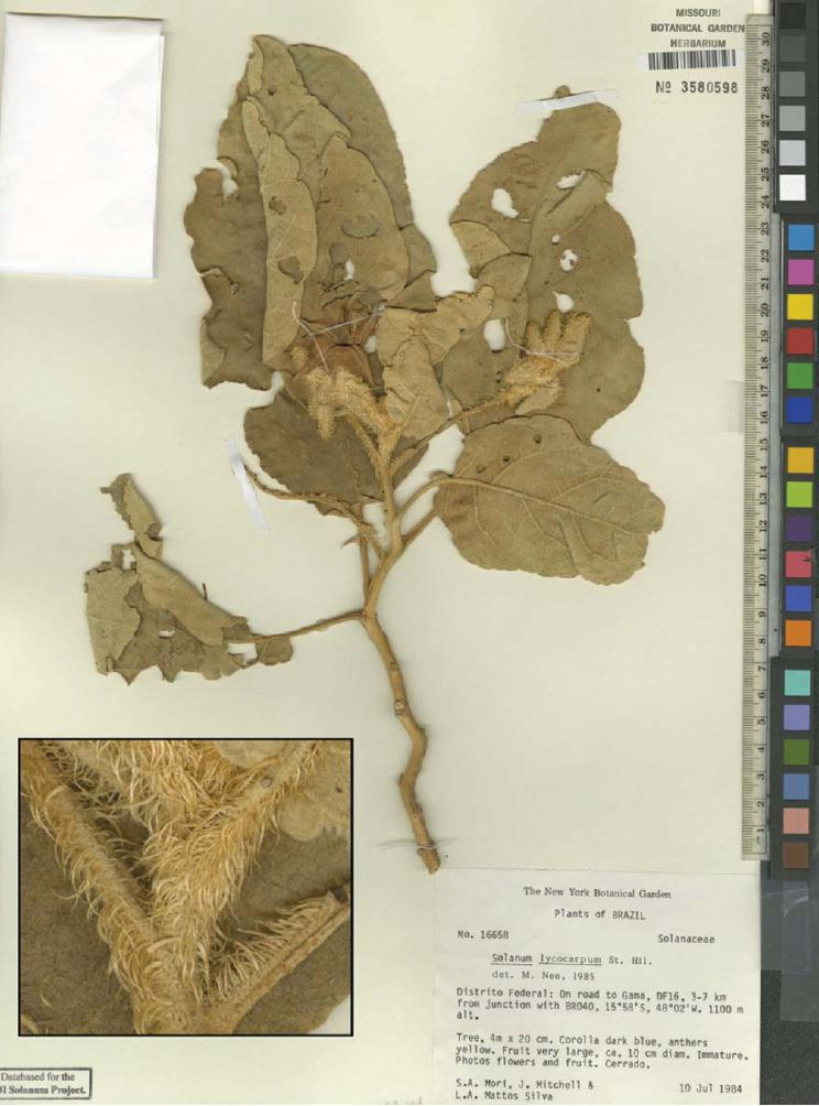 Leaves of Solanum falciforme